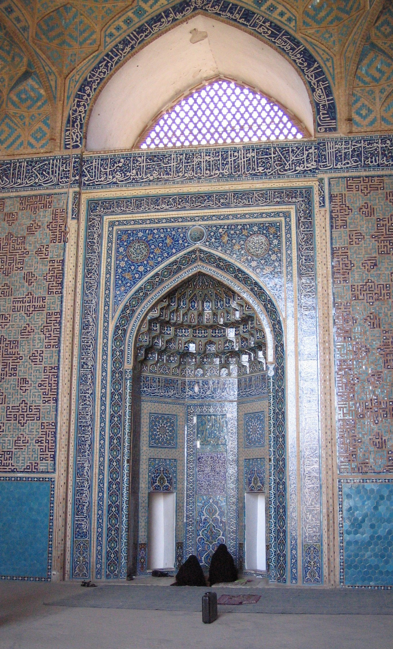 Mehrab from Masjed-e-jomeh in Yazd with two women praying.